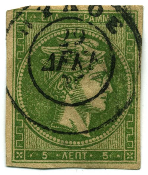 Greek large Hermes head 5-lepta stamp, Scott no. 53 (1880-1886 print) with ΠΥΛΟΣ 29 ΔΕΚ 86 (PYLOS 1886-12-29) postmark. They were printed using the same plates as the first Greek 1861 issue, but on different cream-colored paper.